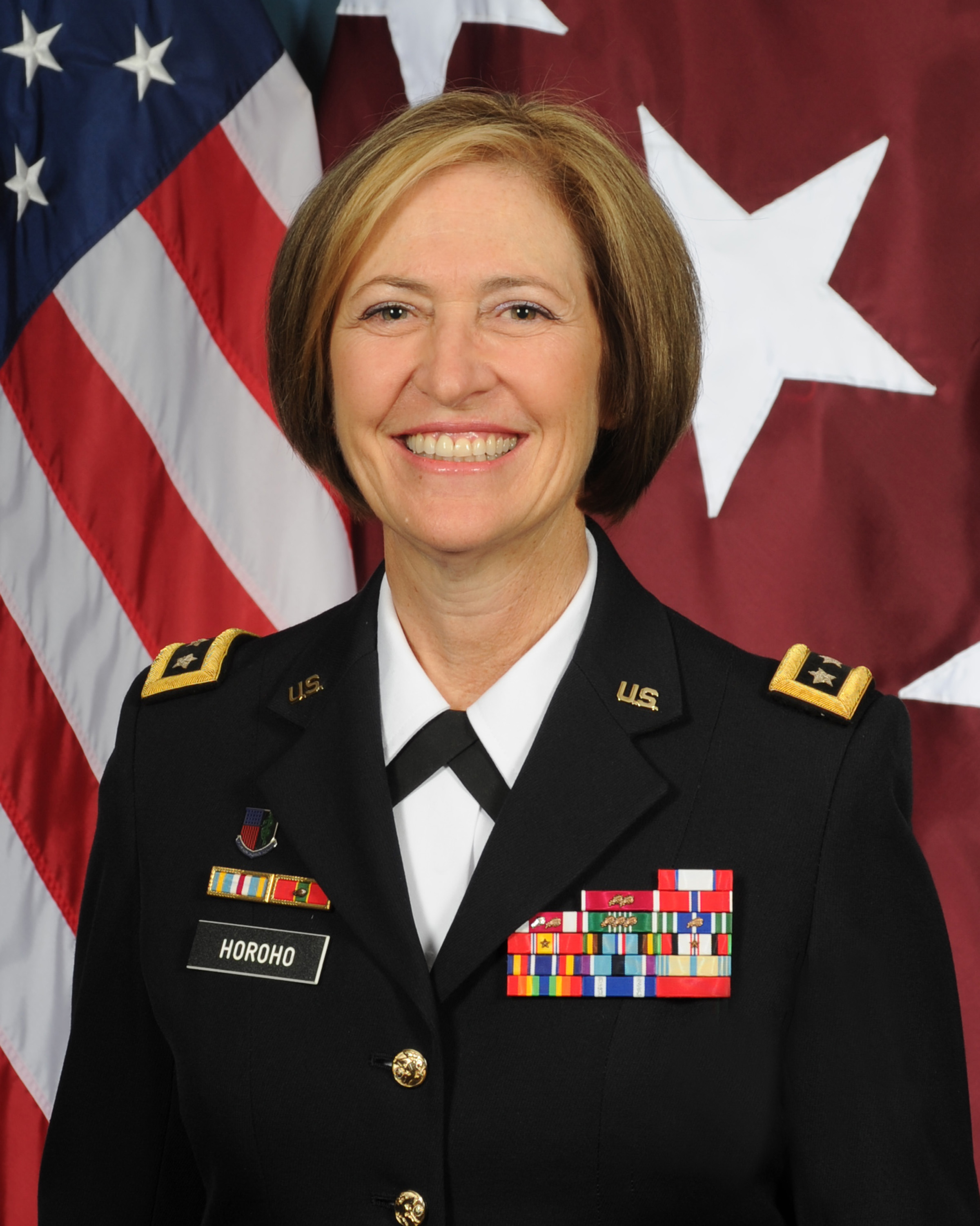 U.S. Army Surgeon General and Commanding General U.S. Army Medical Command